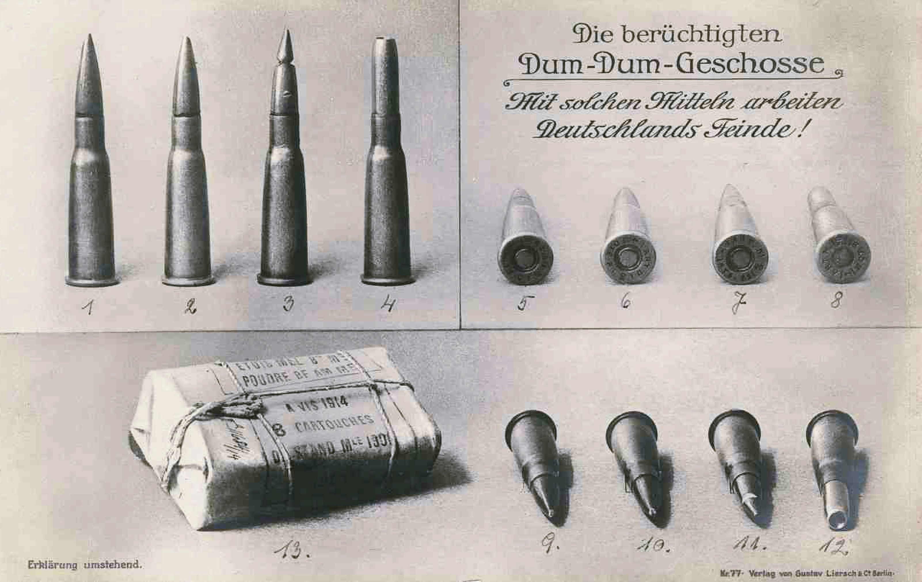 German World War I postcard, accusing the French troops of using "The infamous Dum-Dum-Bullets". Published some time between late 1914 and 1918.